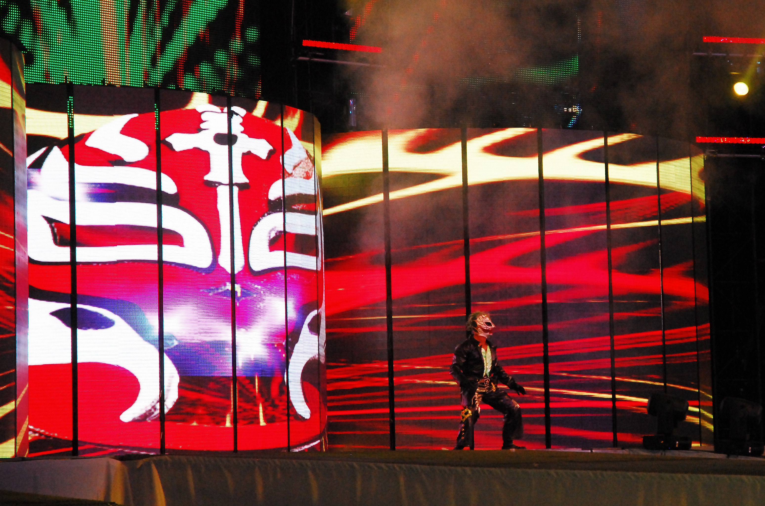 Ray Mysterio took care of JBL's business in 21 seconds flat.